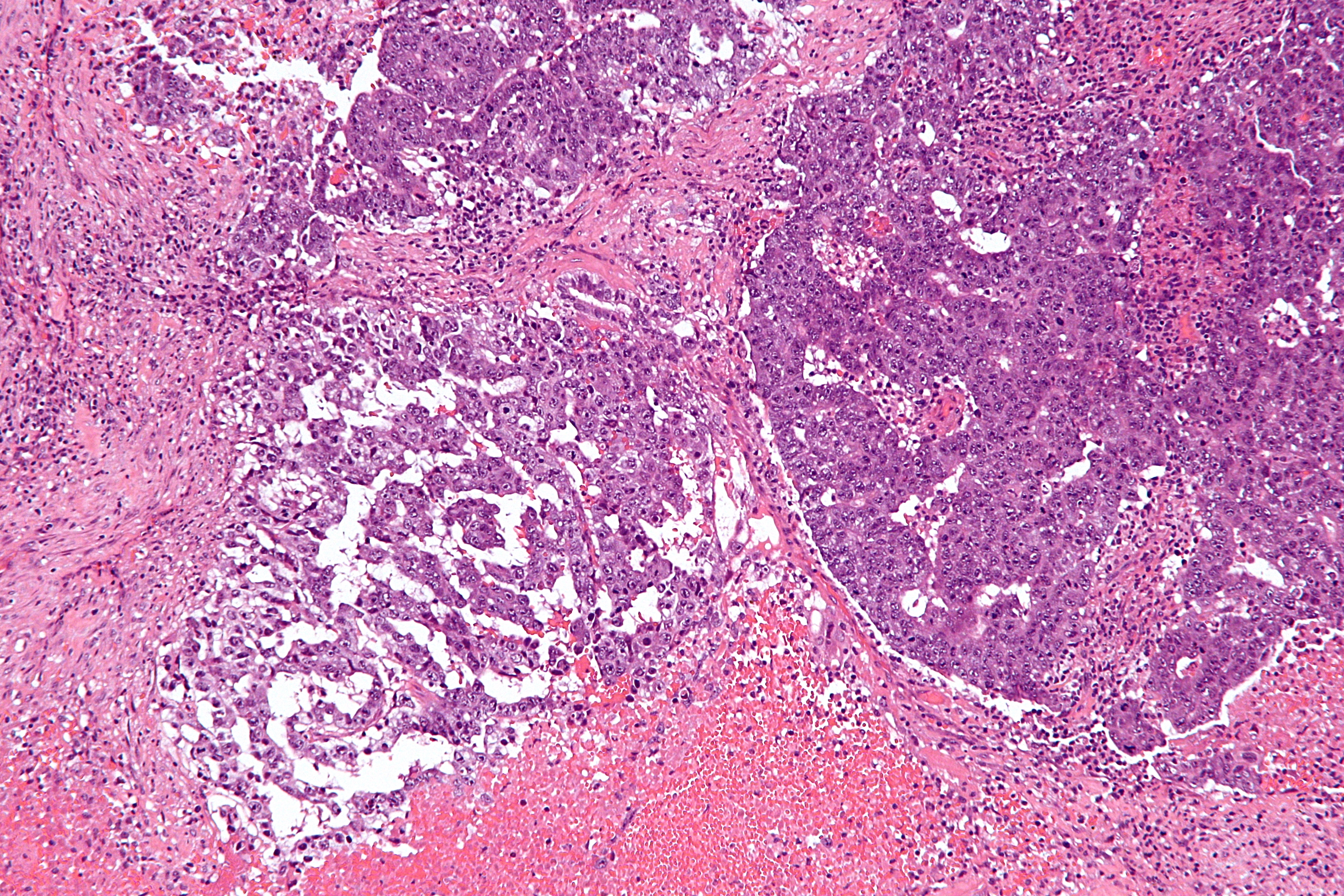 Intermediate magnification micrograph of a mixed germ cell tumour, also spelled mixed germ cell tumor. Testis (not apparent in images). H&E stain. The intermediate magnification image show both embryonal carcinoma (right of image) and yolk sac tumour (left of image). The higher magnification images show only yolk sac tumour. Common mixed germ cell tumour combinations are: Teratoma and embryonal carcinoma and yolk sac tumour. Seminoma and embryonal carcinoma. Teratoma and embryonal carcinoma. Yolk sac tumour has ten different morphologic patterns: Reticular. Endodermal sinus-like. Microcystic. Papillary. Solid. Glandular. Alveolar Polyvesicular vitelline. Enteric. Hepatoid. Related images Intermed. mag. High mag. Very high mag.